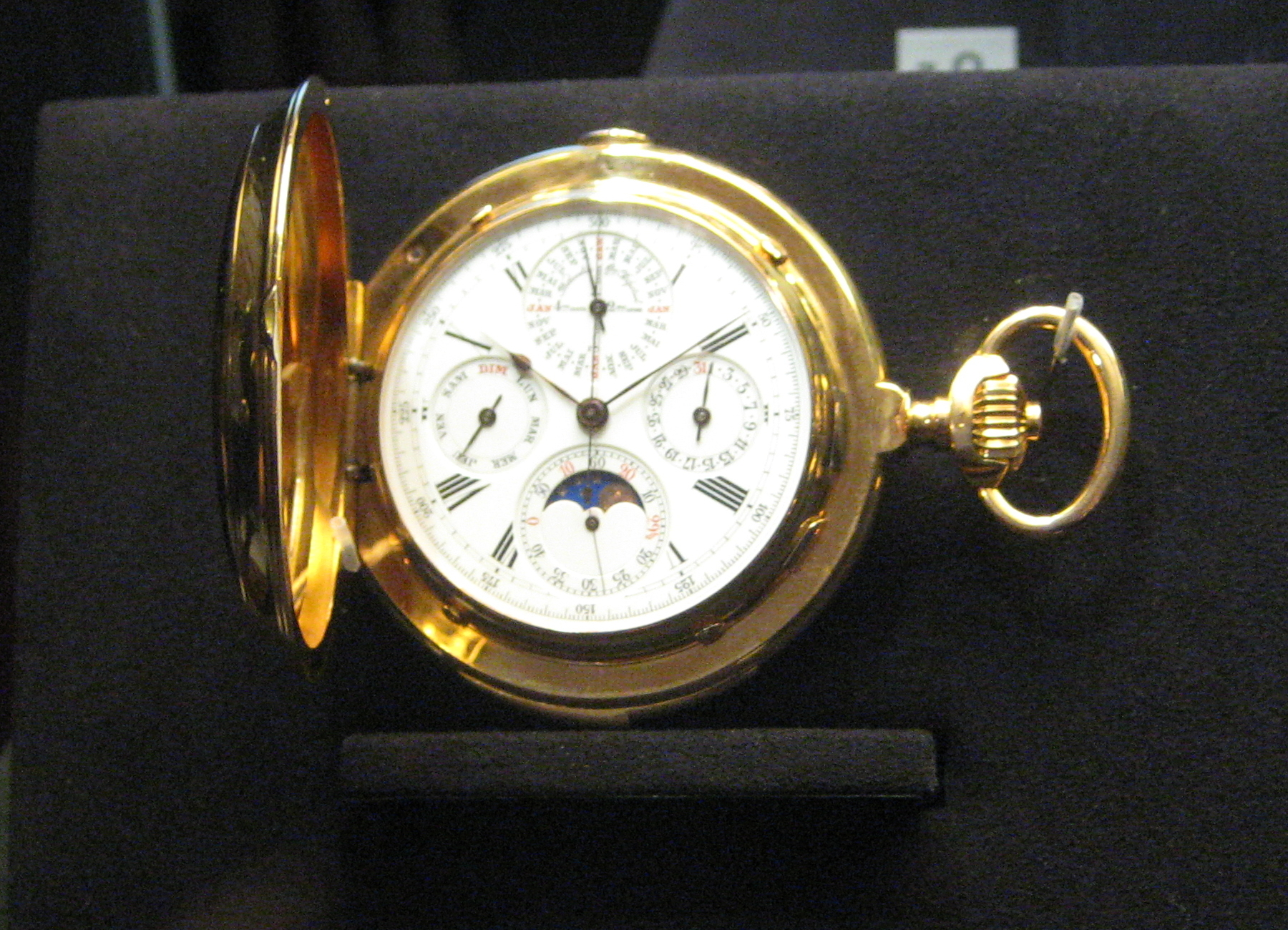 Triple complication pocket watch. Vacheron Constantin. 1901. Simple chronograph, minute repeater, perpetual calendar with 48-month dial. Pink gold. Patrimoine V.C.